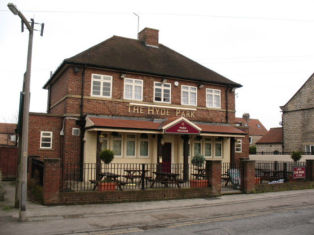 The Hyde Park, Norton Public House dating from 1938 on Mill Street in Norton.